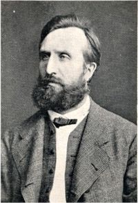 Norwegian politician and journalist Hagbard E. Berner (1839-1920)